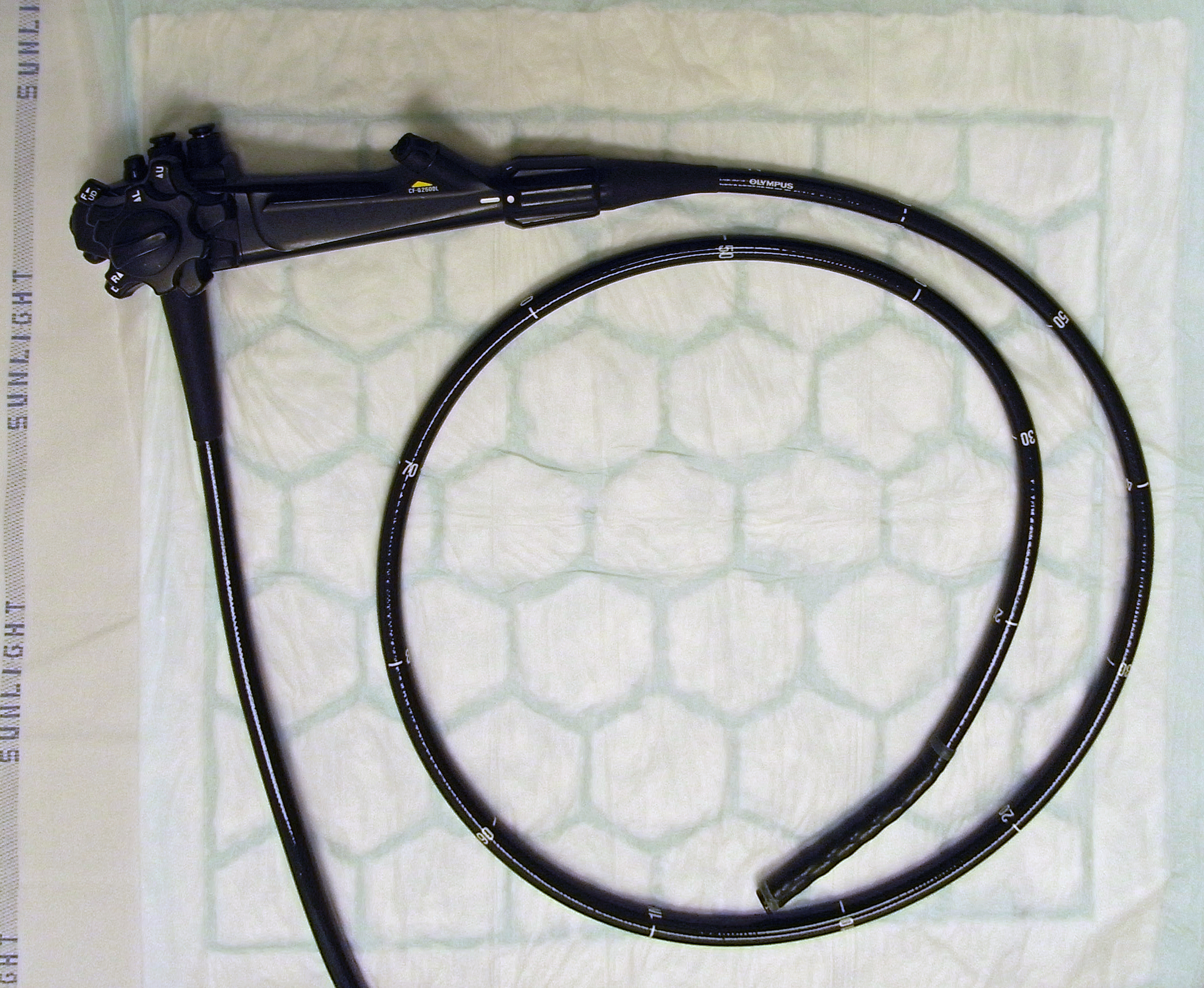 Olympus XQ260 variable stiffness video colonoscope